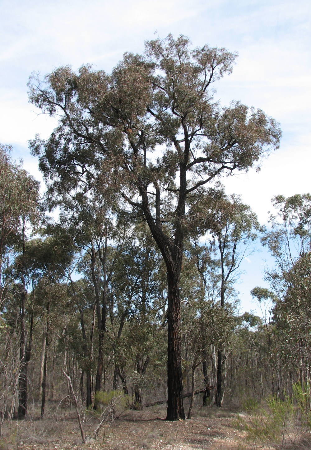 Eucalyptus tricarpa, Paddys Ranges State Park, Victoria, Australia